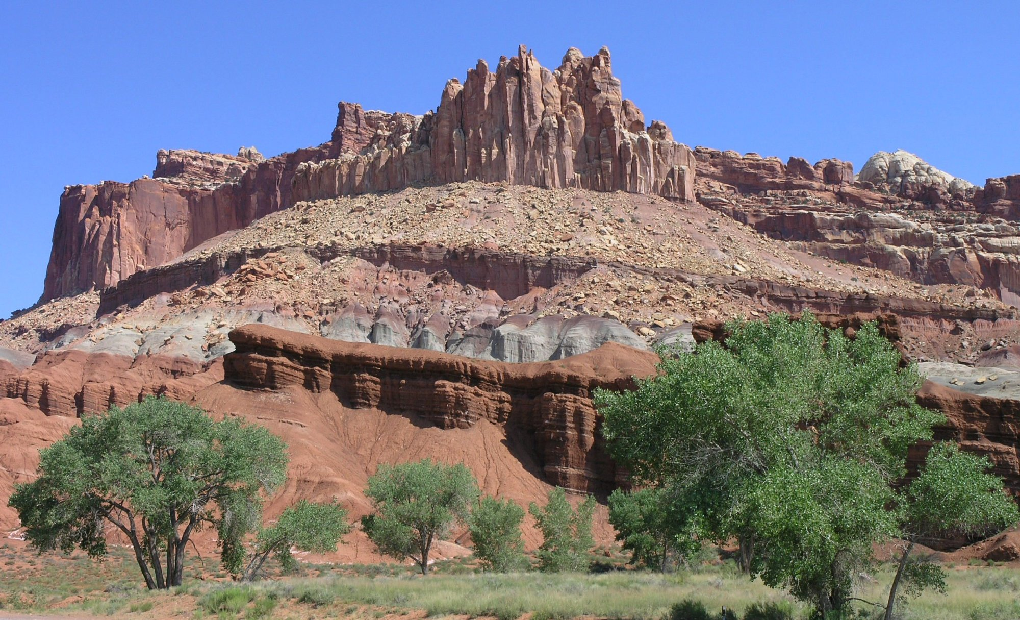 Picture taken by Daniel Mayer in late June 2005.